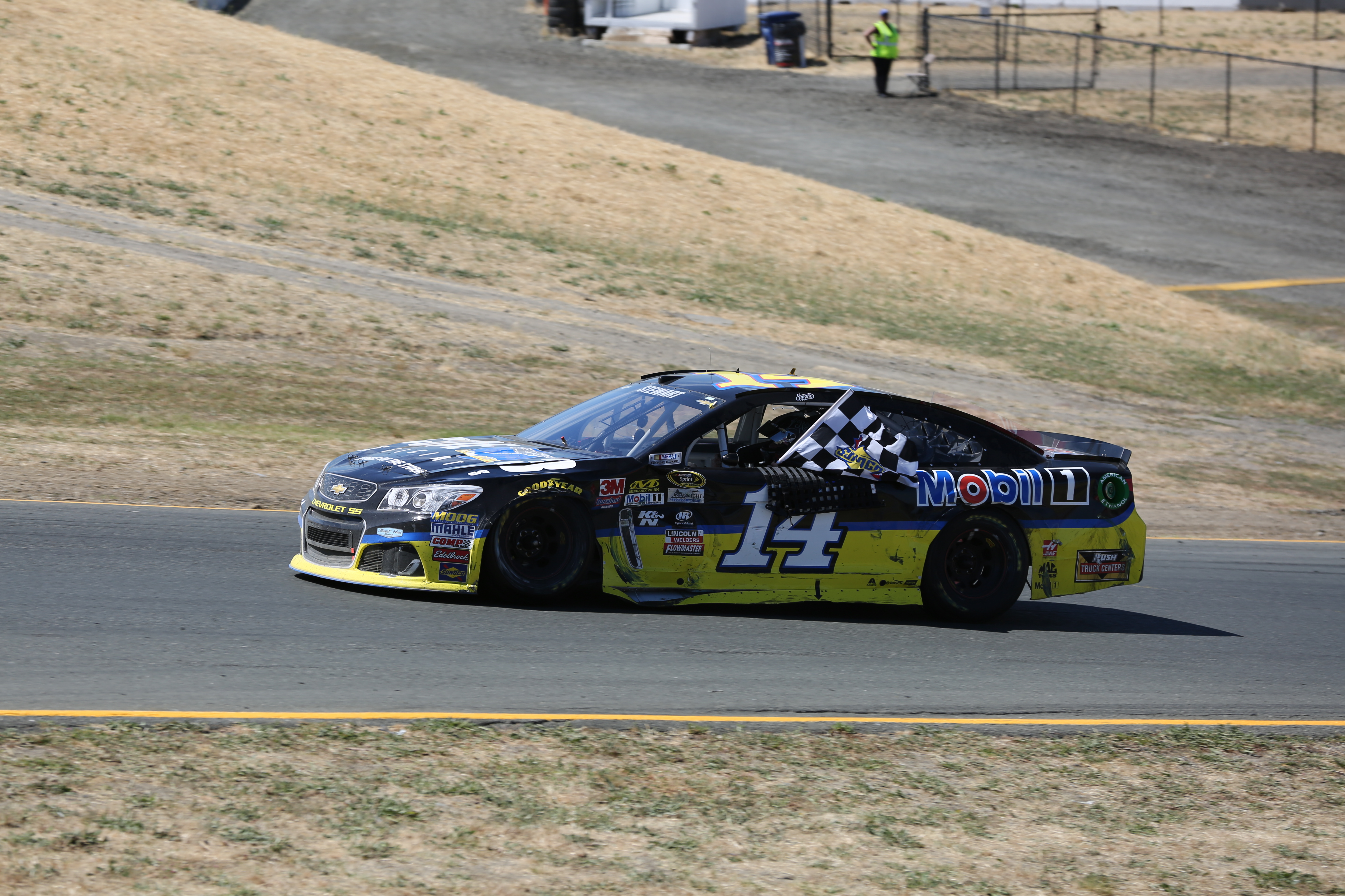 Tony Stewart celebrates after winning the Toyota/Save Mart 350 at Sonoma Raceway in 2016.